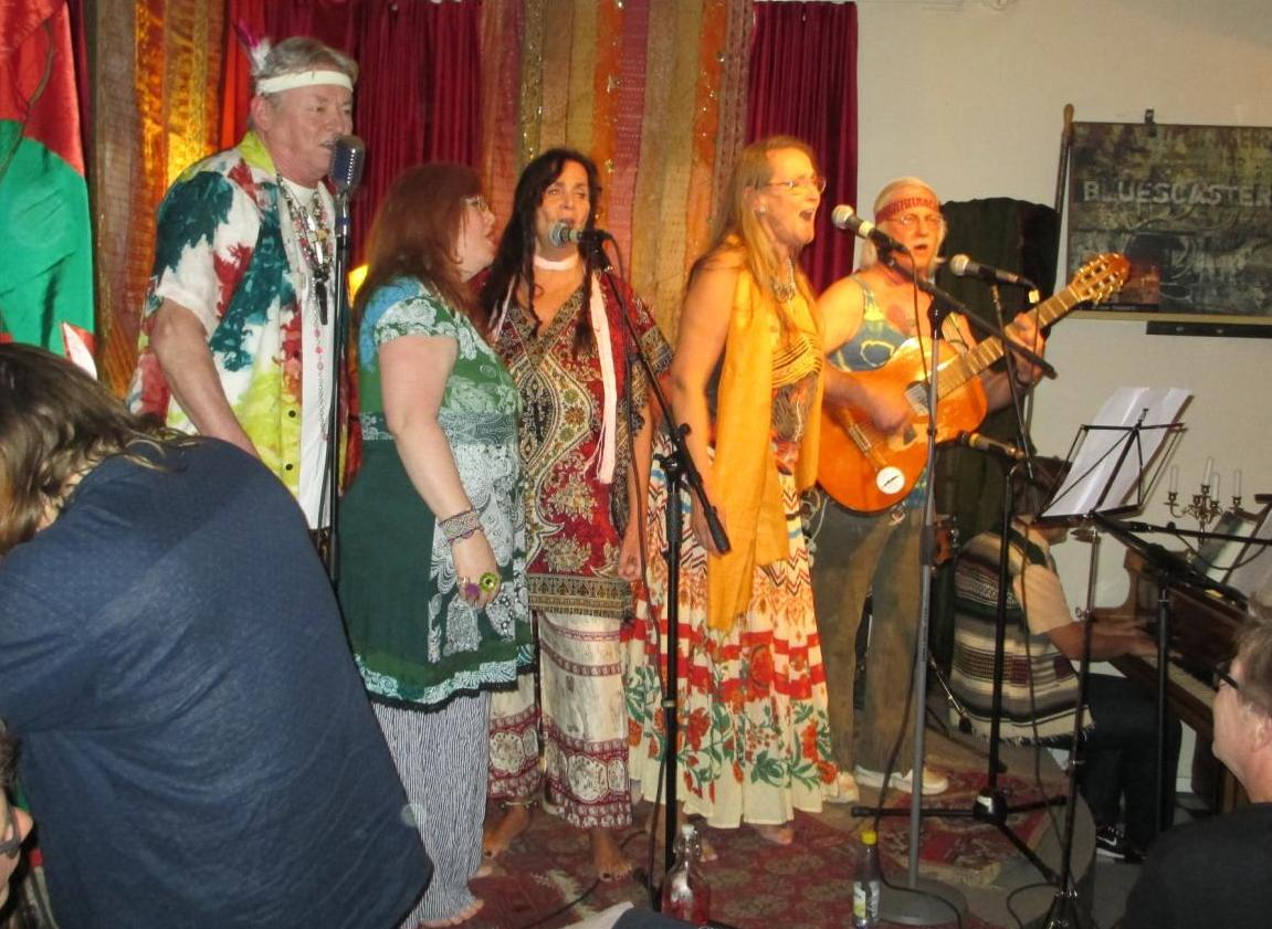 Original 1968 Swedish ensemble members of the musical Hair still performing together in 2015 (on stage left to right: Lennart Hjelm, Tessan Milveden, Jane Sannemo, Anna-Bella Munter & Sten-Erik Moberg)Place: Rost, Wolmar Yxkullsgatan 52, Stockholm, Sweden